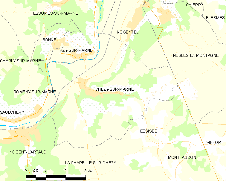 Map of French commune: Chézy-sur-Marne Map commune FR insee code 02186.png